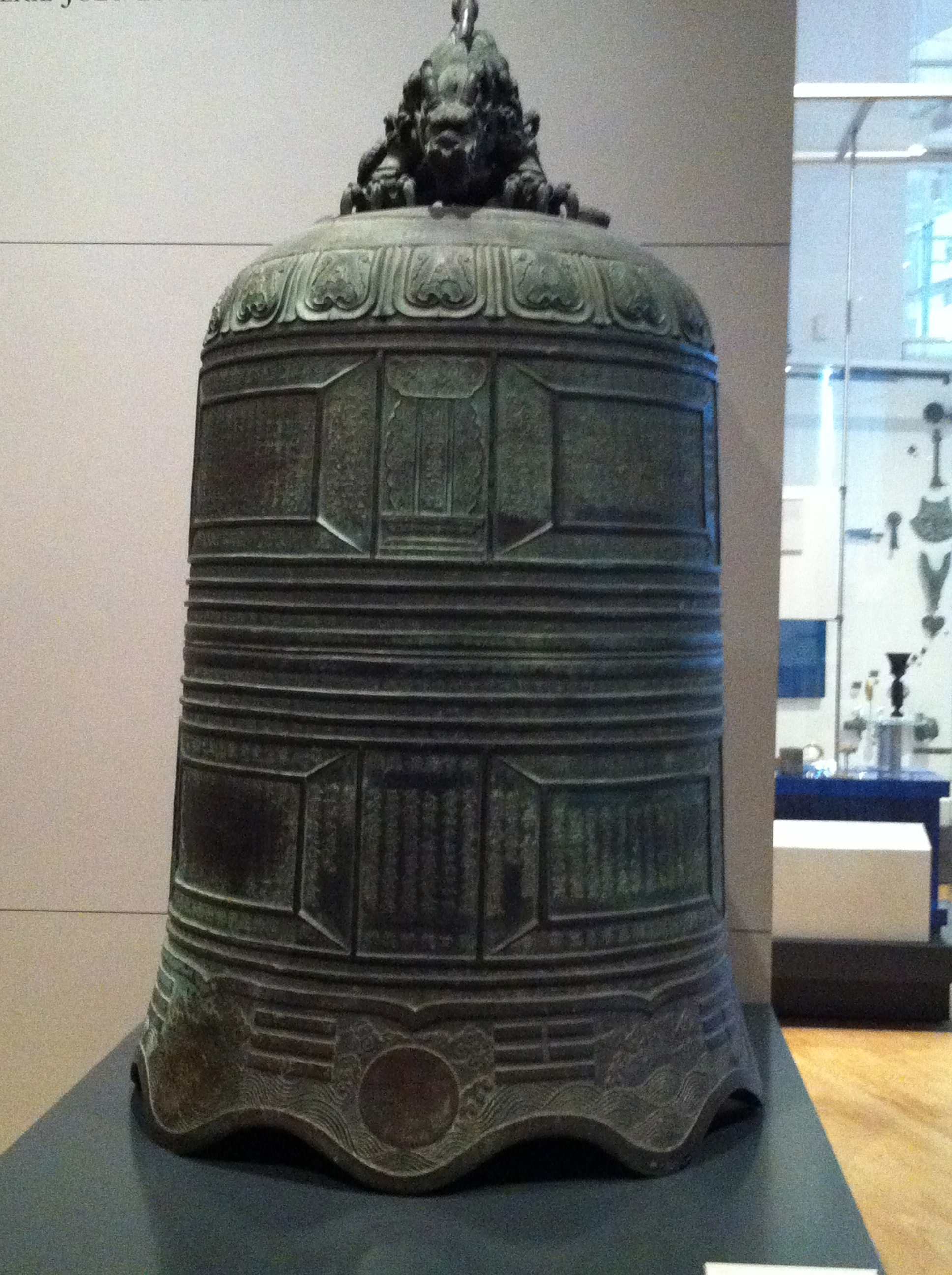 Wei Bin's Bell.jpg